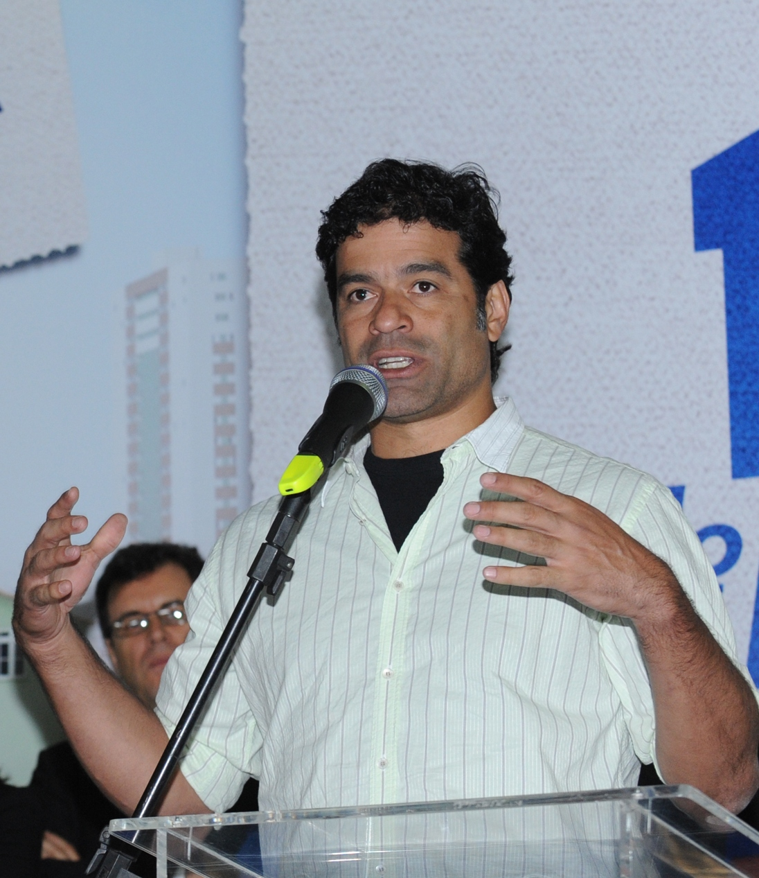 Raí in 2009, in Feirão Caixa da Casa Própria